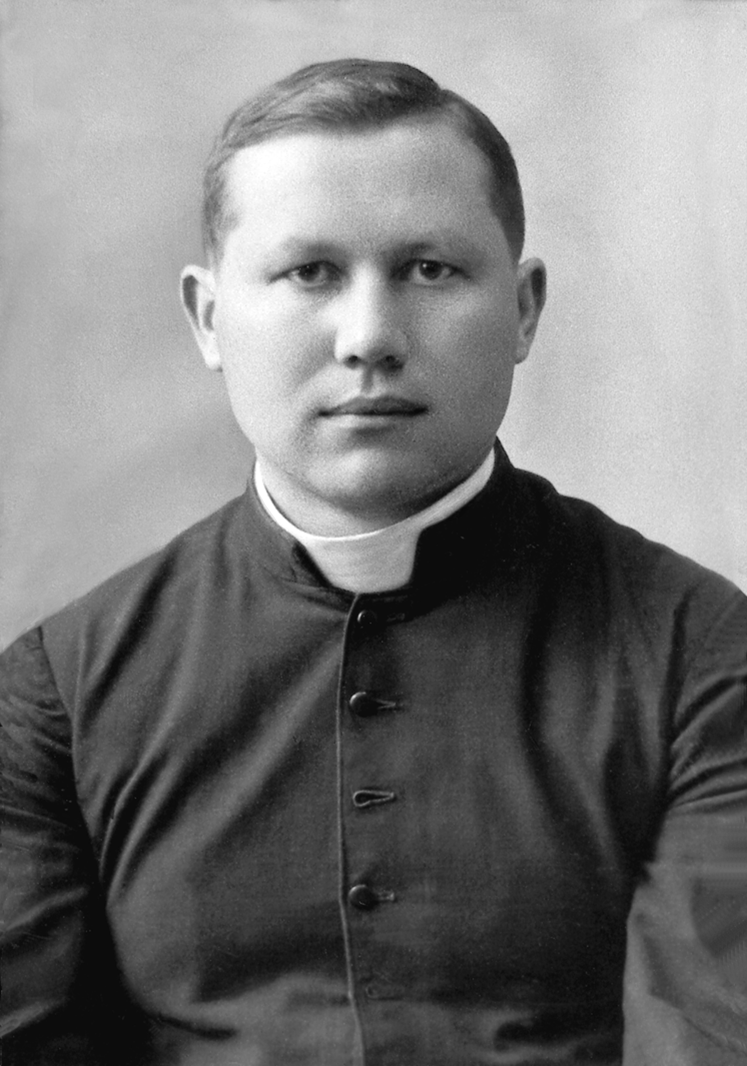 Blessed Jerzy Kaszyra